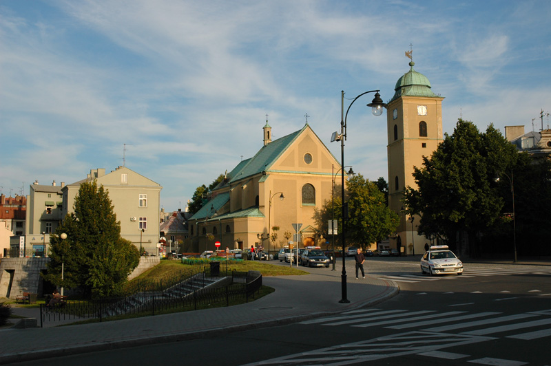 Church of Ss. Stanislas and Adalbert in Rzeszów, Poland